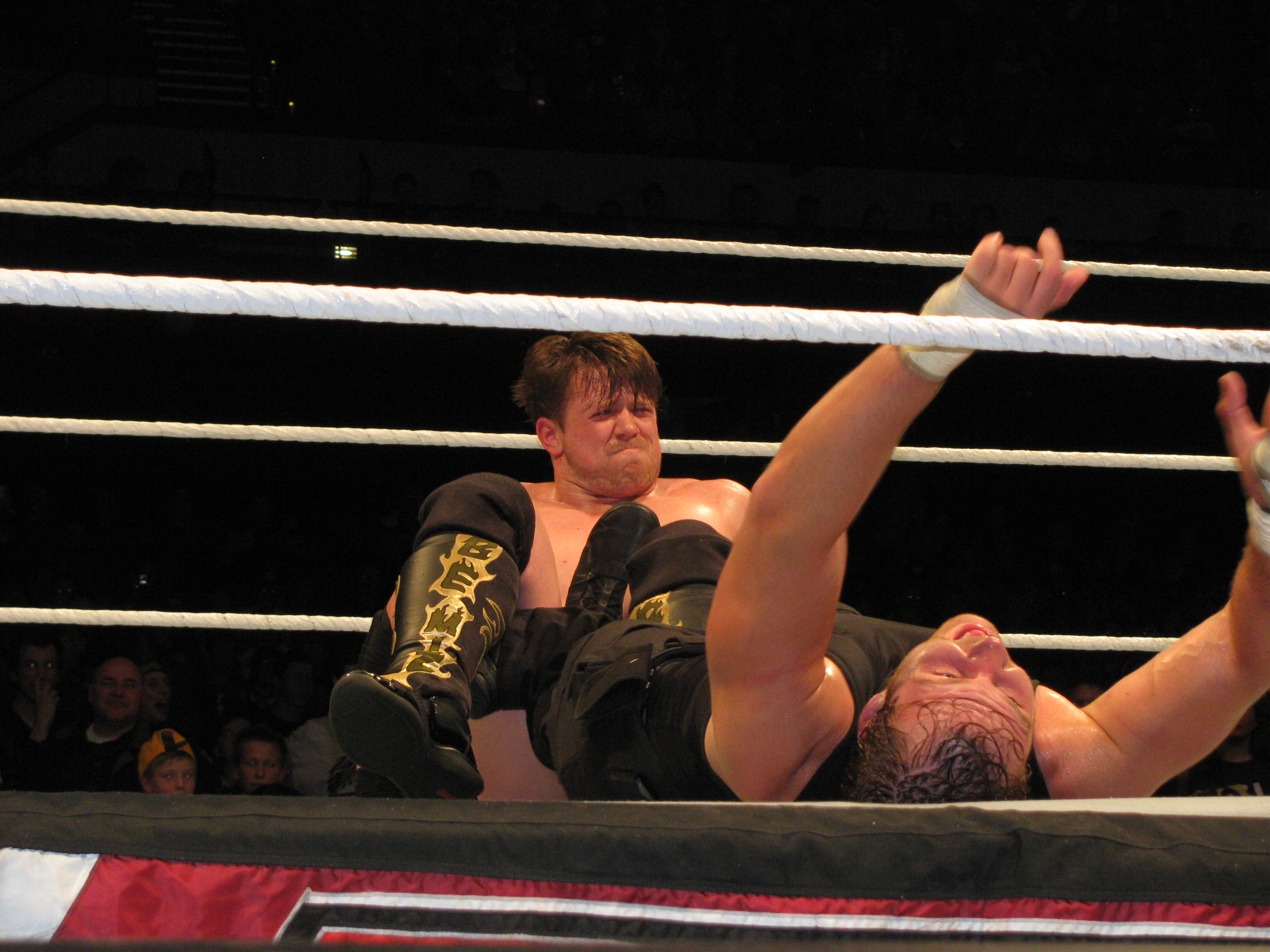 Dean Ambrose & The Miz @ Adelaide, South Australia WWE house show on the 29th of July '13